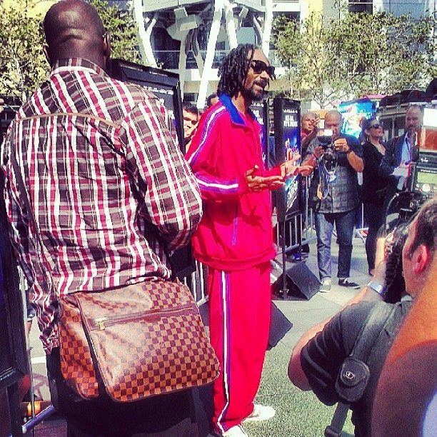 Rapper, Snoop Dogg, debuted at the "Turbo" party at the E3 convention a new song, "Let the Bass Go", created for the 2013 animated film, "Turbo".